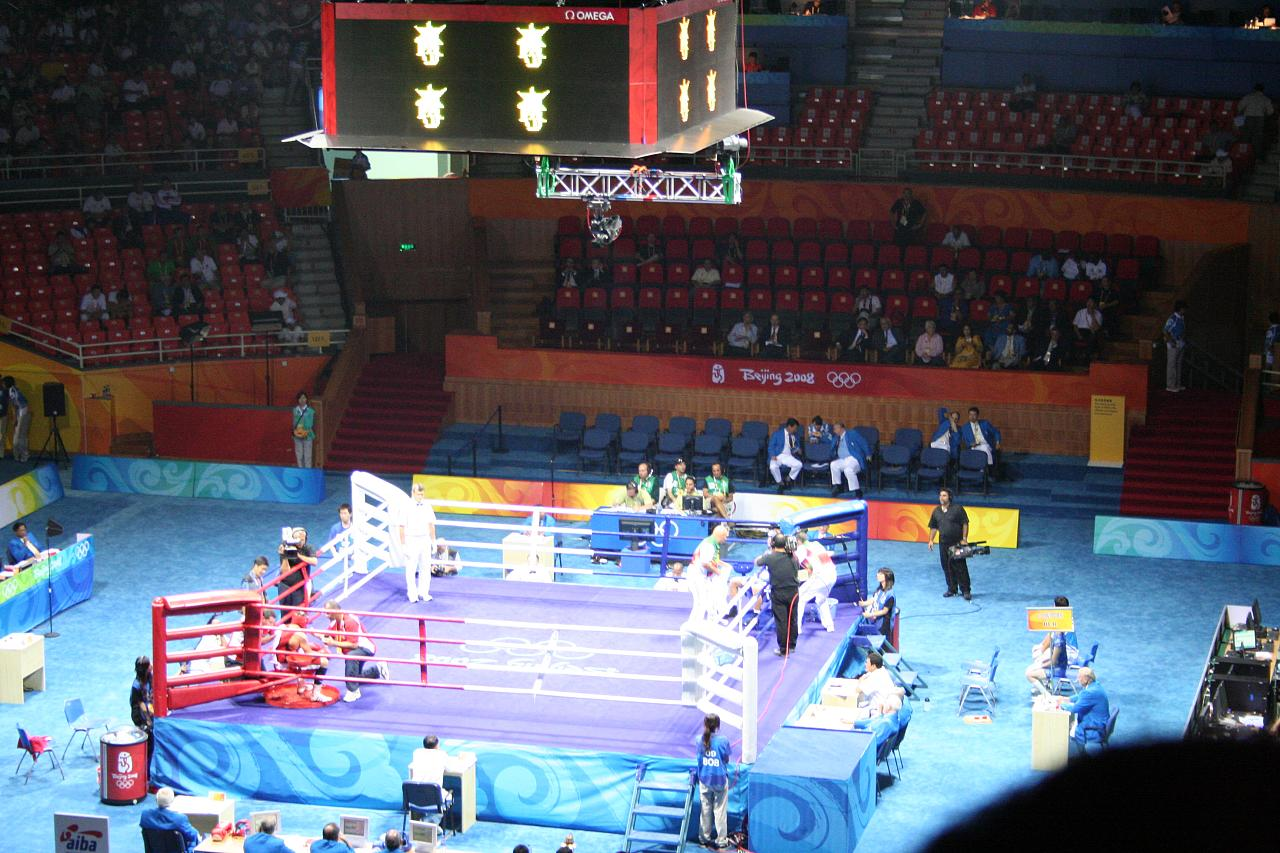 Boxing heats being held at the Beijing Workers Gymnasium. Ramadan Yasser (EGY) v. Ramazan Magomedov (BLR)